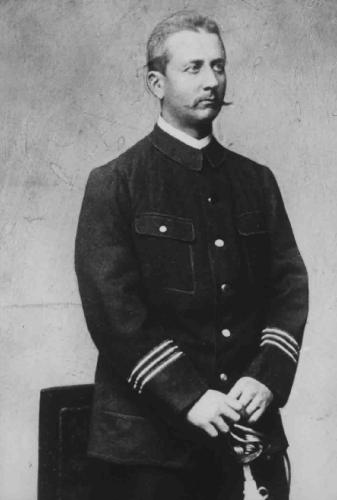 Emil von Zelewski (1854-1891), commander of the "Schutztruppe" of German East Africa.